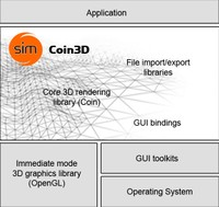 Scheme of Coin architecture